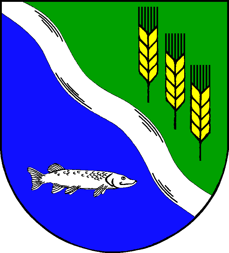 Coat of arms of the municipality Schierensee in Schleswig-Holstein, Germany.